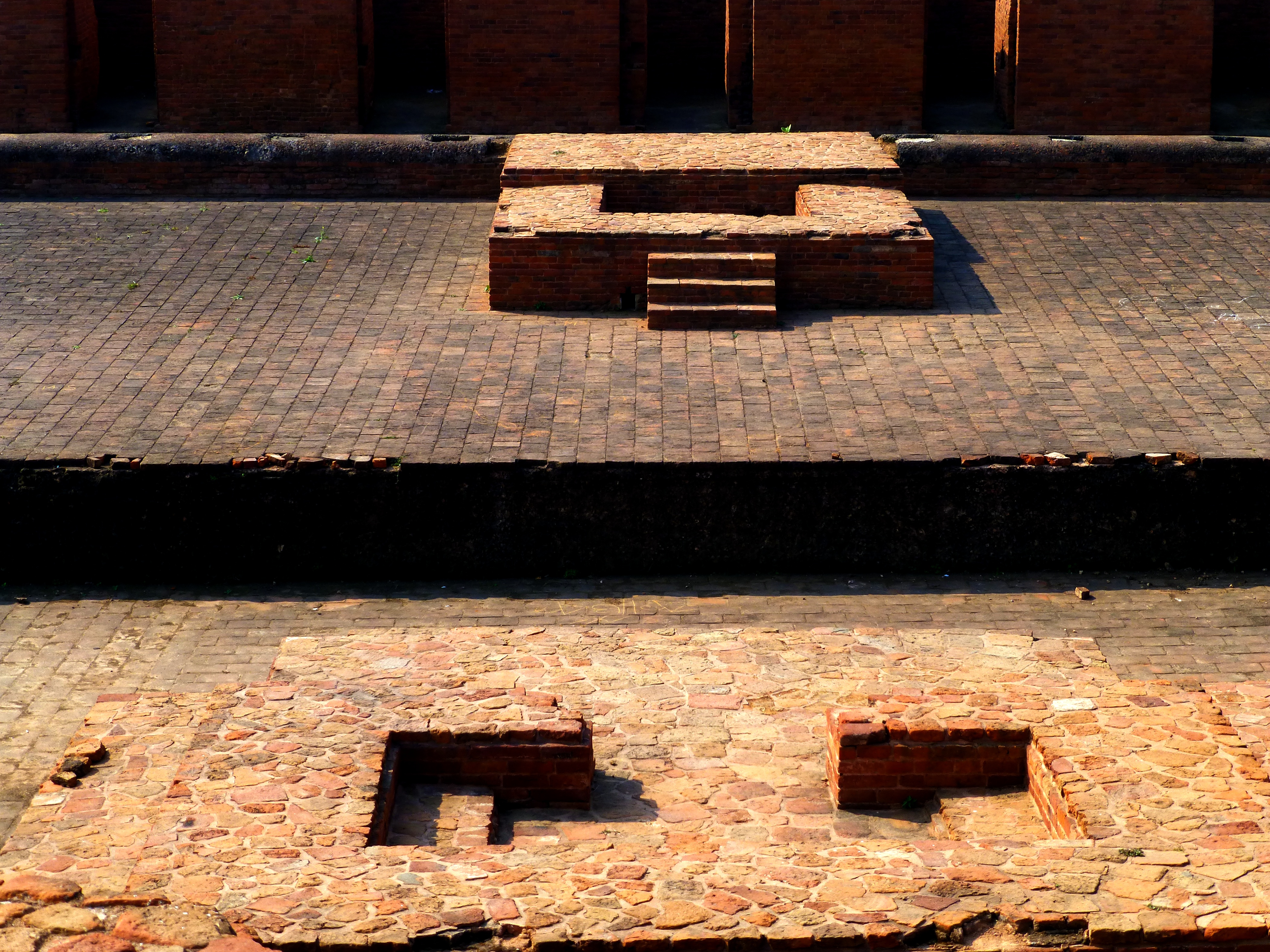 043 Teaching Platform at Nalanda Photograph from the ruins of Nalanda in Bihar taken by Anandajoti.